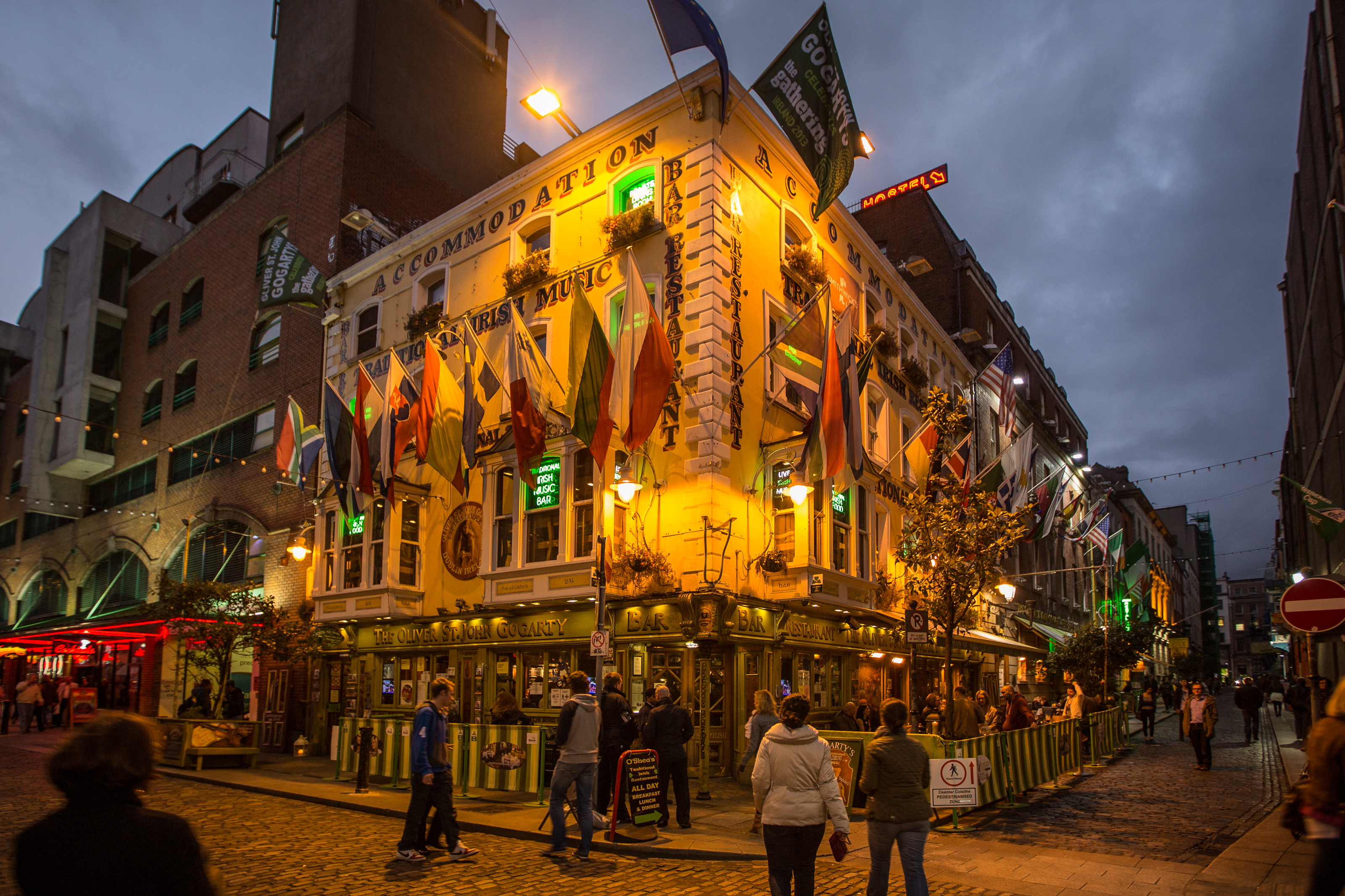 The Oliver St. John Gogarty